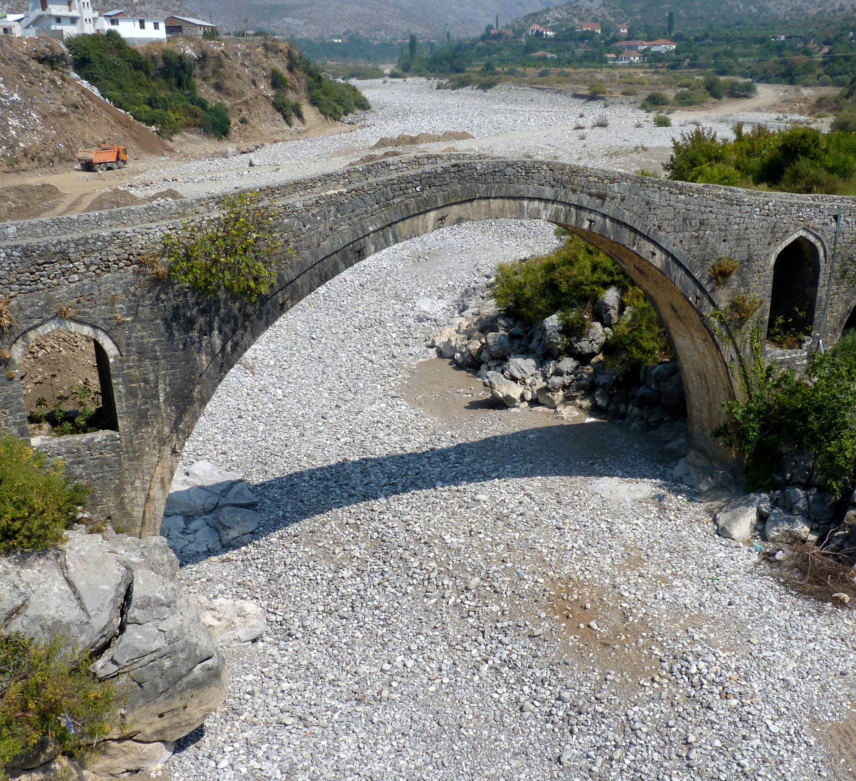 Stone bridge in the Albanian Mes